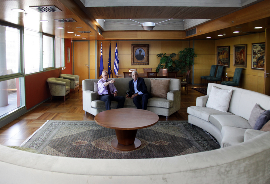 Mayor of Thessaloniki Yiannis Boutaris meets the -then- Prime Minister of Greece, George Papandreou, in his new office at the newly-built Thessaloniki City Hall.